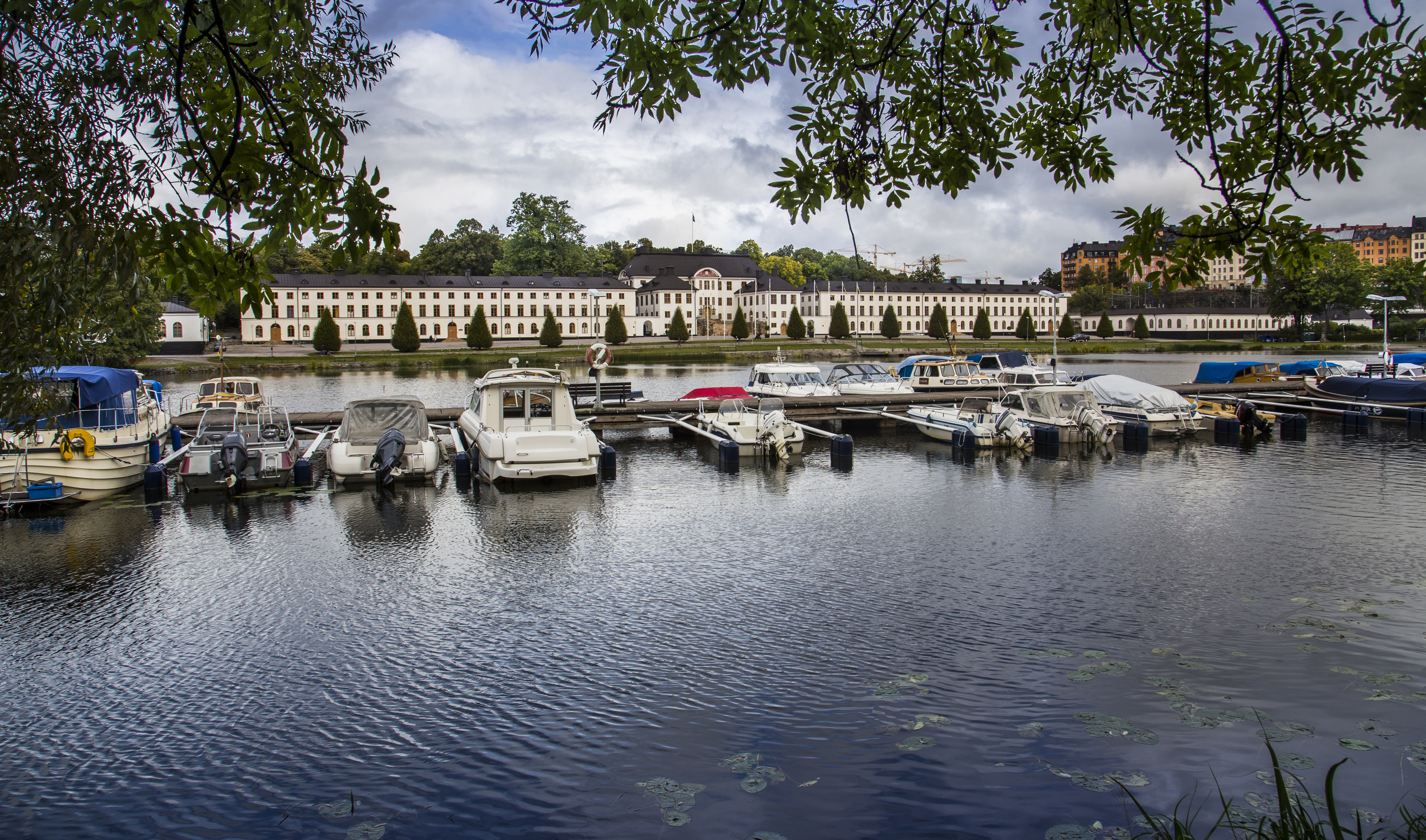 Karlberg castle, Stockholm